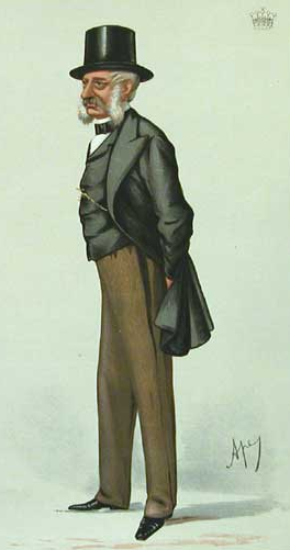 Caricature of General George Bingham, 3rd Earl of Lucan. Caption read "Balaklava"